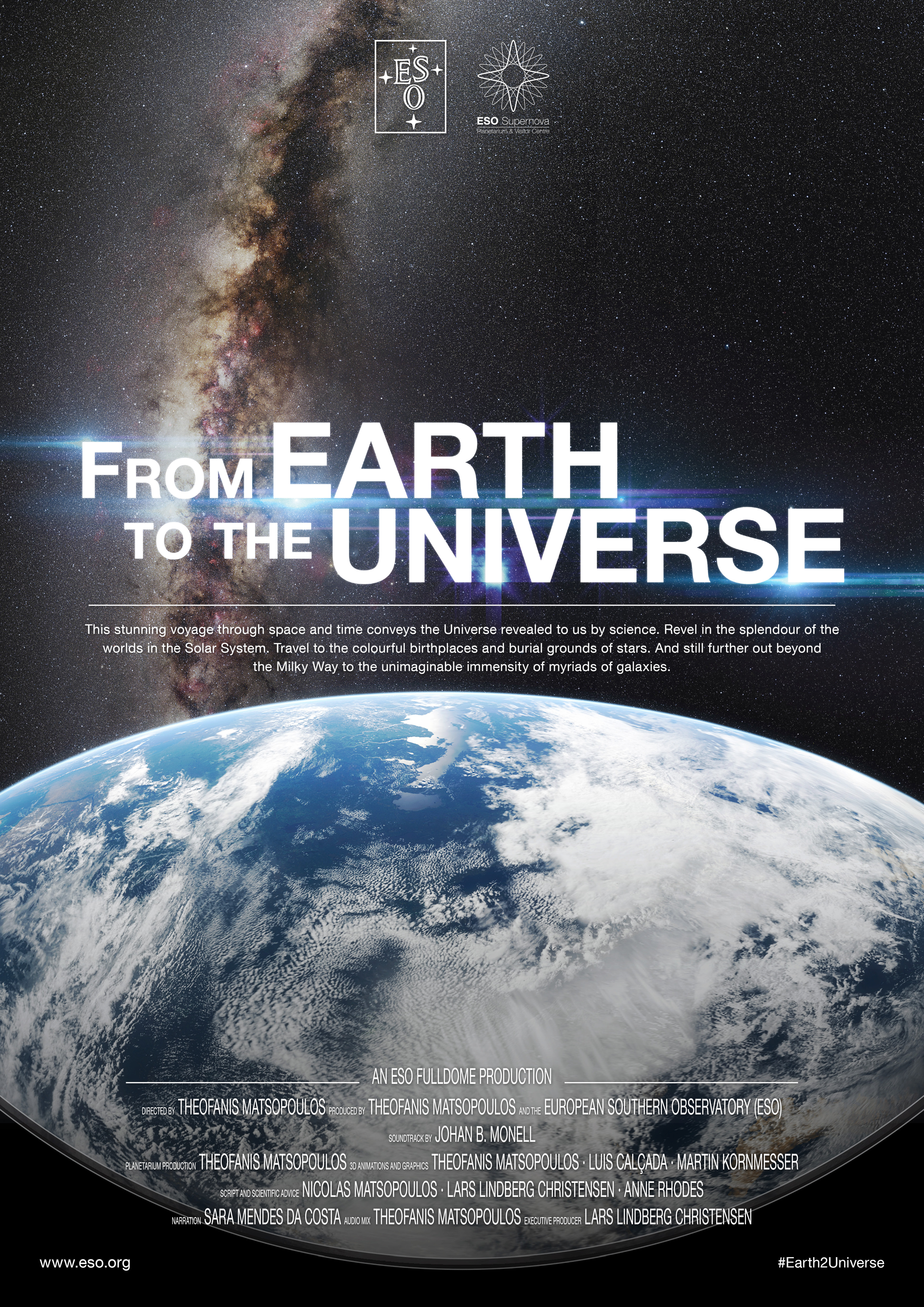 This is the poster for ESO’s first in-house produced fulldome planetarium movie, From Earth to the Universe. This stunning, 30-minute voyage through time and space conveys, through an arresting combination of sights and sounds, the Universe revealed to us by science. The show was produced for the ESO Supernova Planetarium and Visitor Centre, to be opened in 2017, and for the worldwide planetarium community as free highres 4k download.